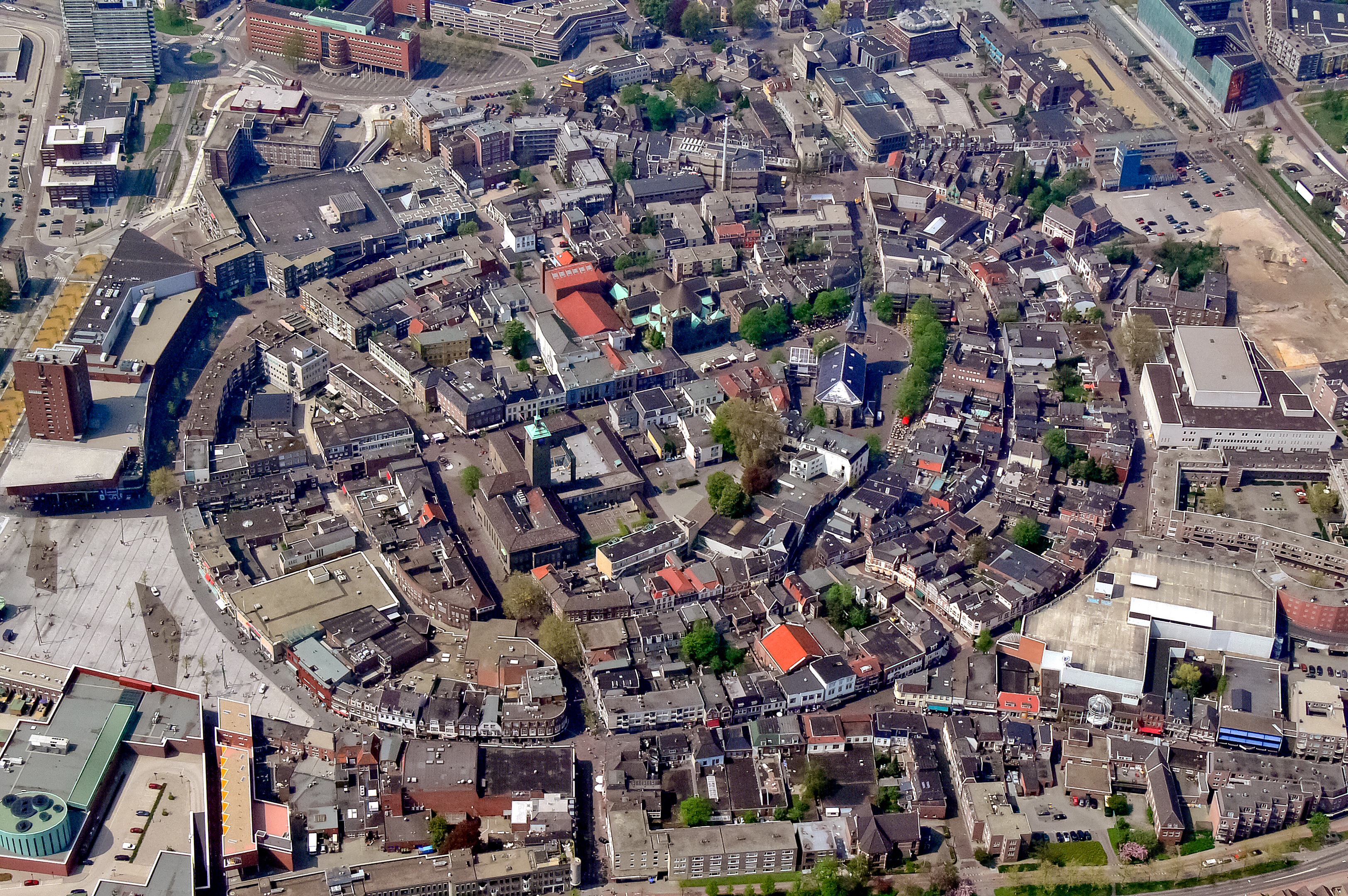 The city centre of Enschede, where i live. Panasonic DMC-FZ30